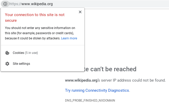 Screenshot showing the Block of Wikipedia in Turkey after click the "i" in the corner